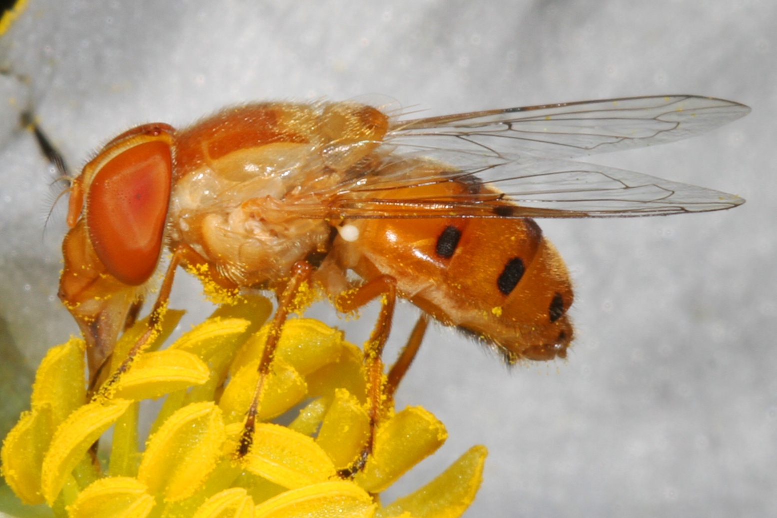 Syrphid - Copestylum sexmaculatum, Okaloacoochee Slough State Forest, Felda, Florida.